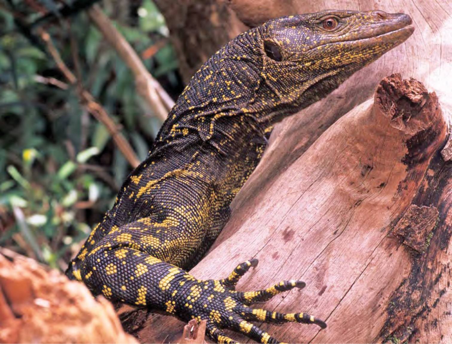 One of the first photographs in life of the newly discovered (Welton et al. 2010) Varanus bitatawa (KU 322188) from Barangay Dibuluan, San Mariano. Photo: ACD.